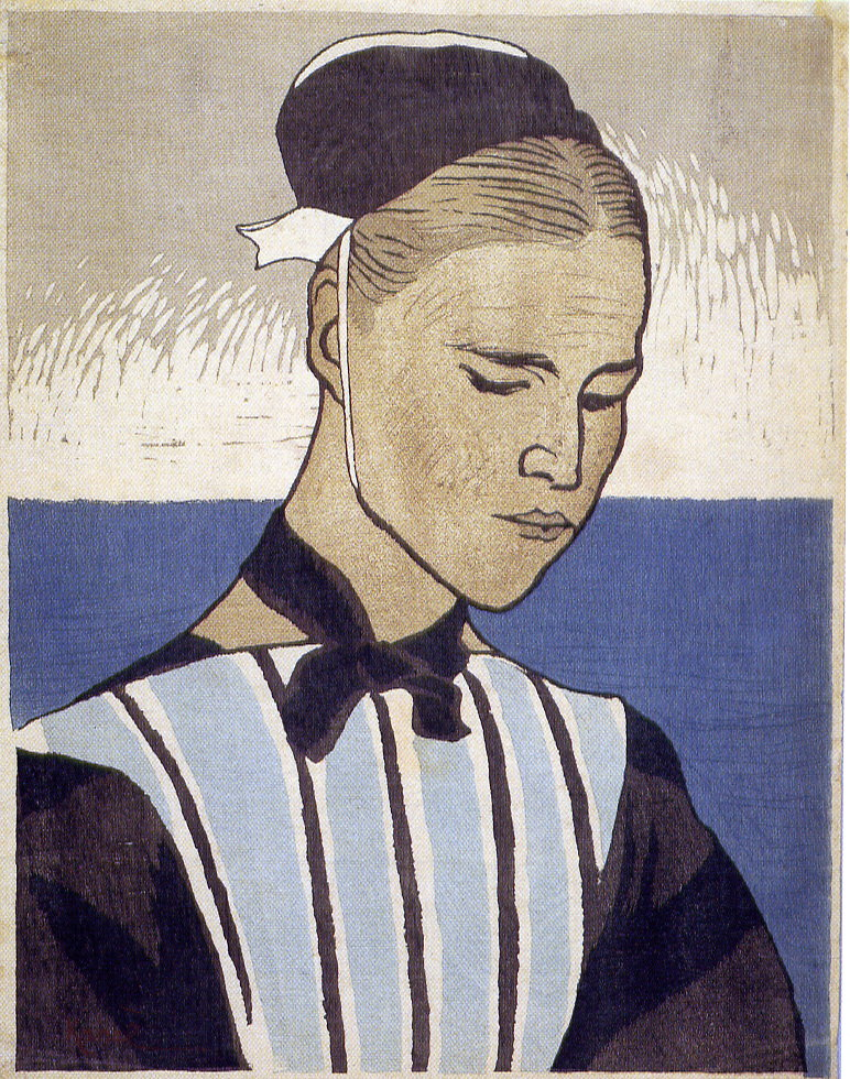 Yamanoto Kanae: Breton Woman, 1920